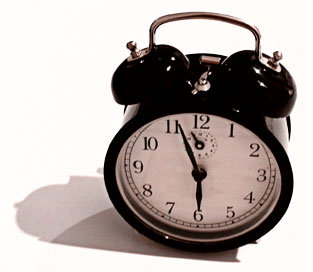 alarm clock, bought from IKEA